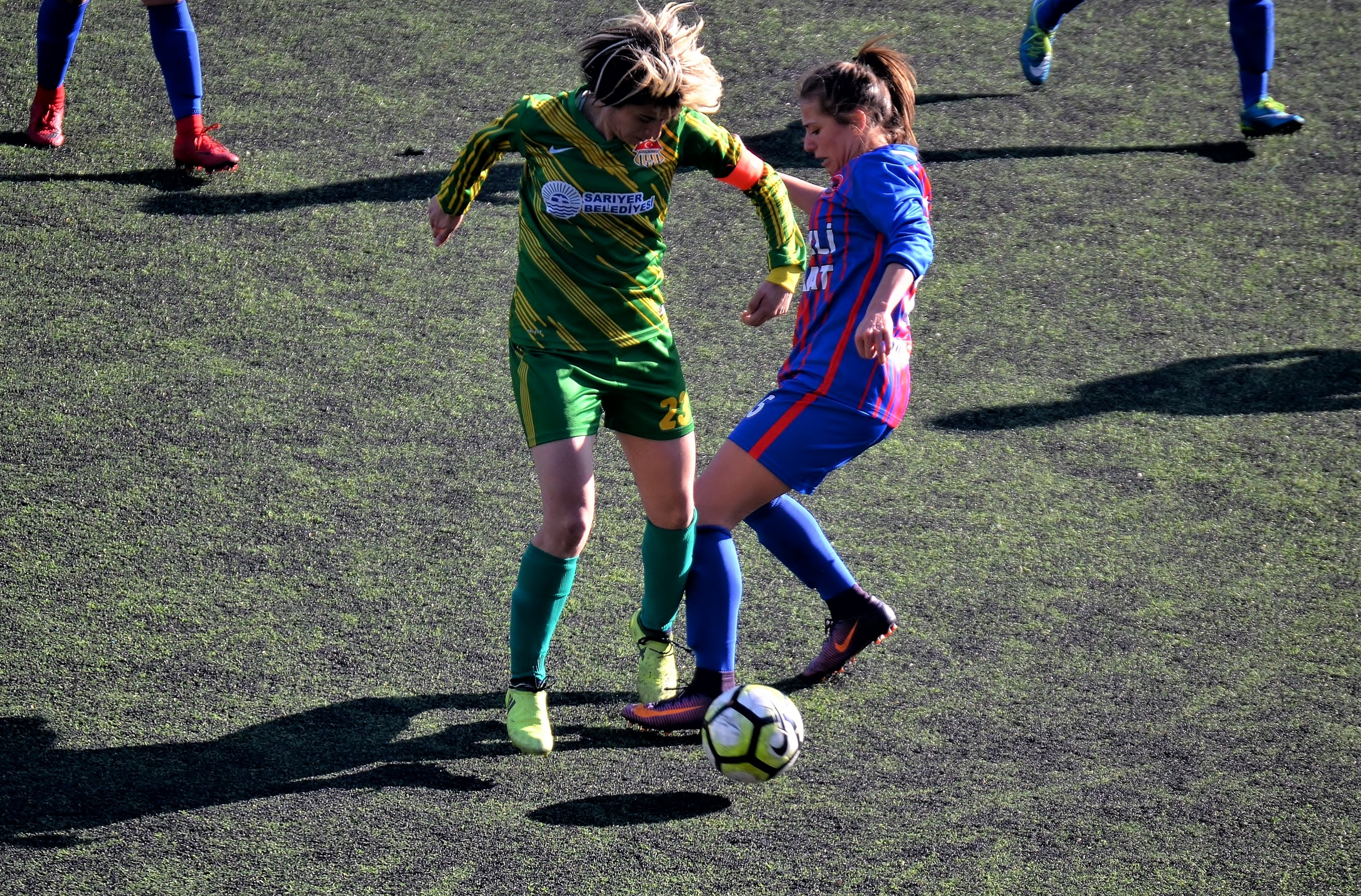 Yeliz Açar (right) of Fatih Vatan Sporplaying in the 2017-18 Turkish Women's First League seson's match against Kireçburnu Spor.